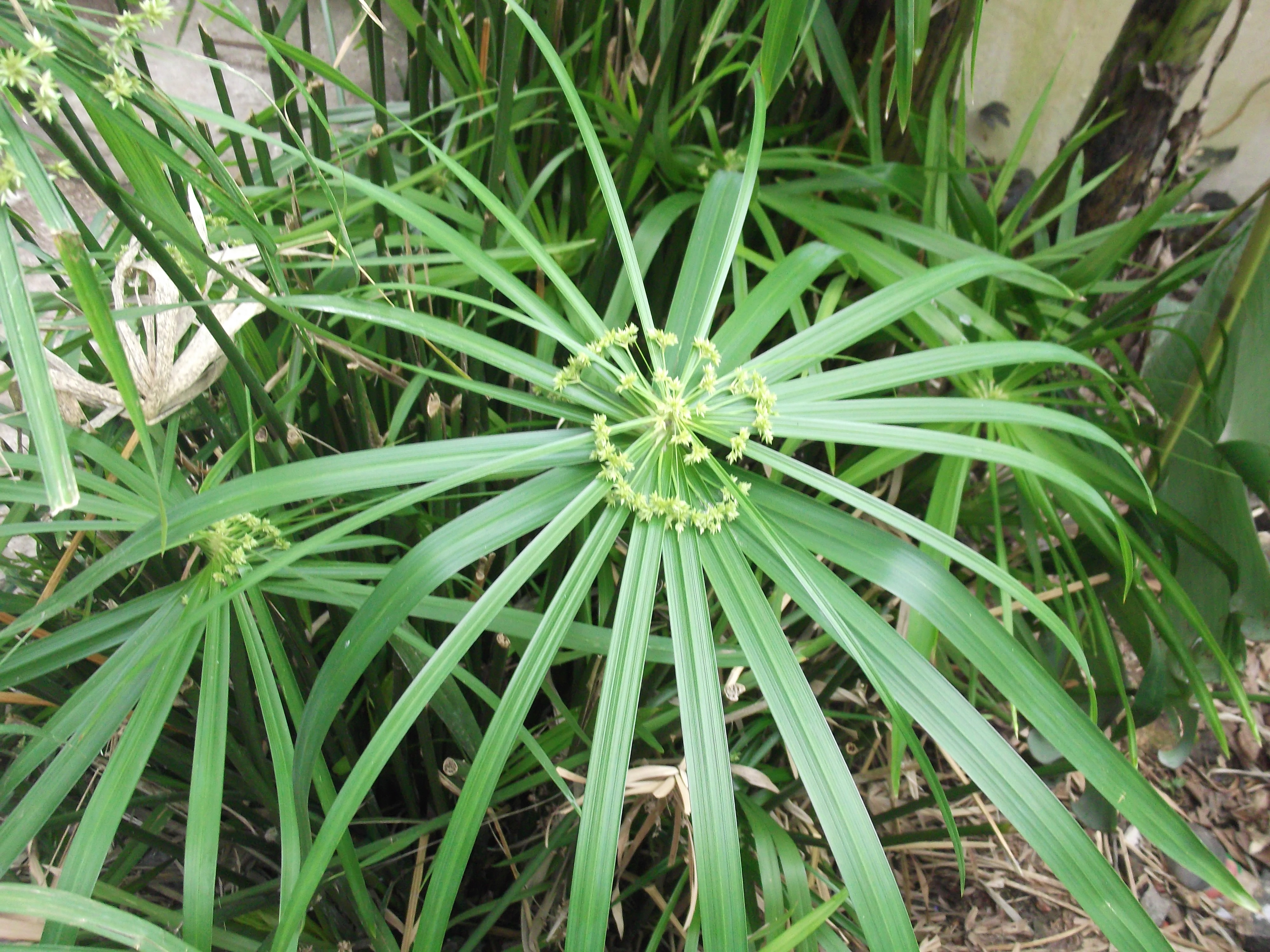 Umbralla plant-rhizome creeping.